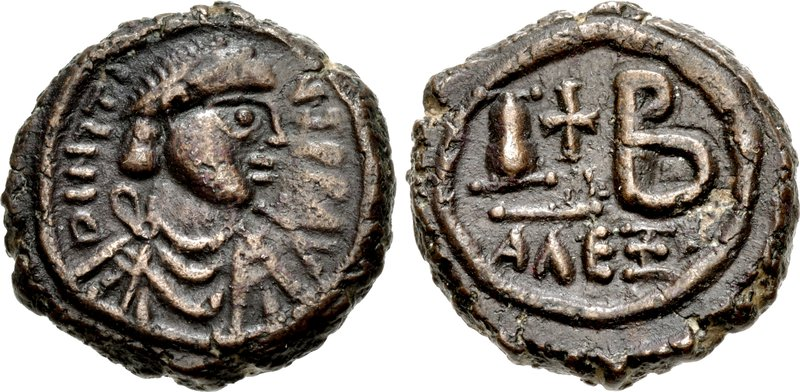 Justin I. 518-527. Æ 12 Nummi (15mm, 4.42 g, 6h). Alexandria mint. Diademed, draped, and cuirassed bust right / Cross between large IB; AΛEΞ. Earliest Byzantine type struck at Alexandria.